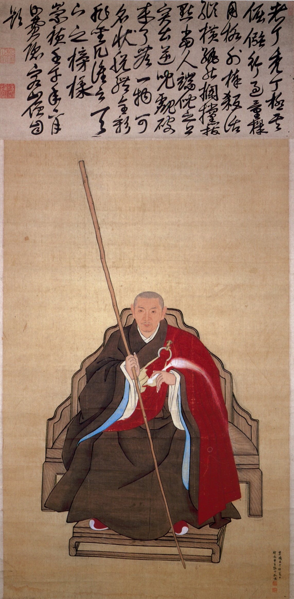 Portrait of Feiyin Tungrong,Zhanggi,Inscription by Feiyin,hanging scroll ,color on silk,Manpuku-ji Temple Kyoto